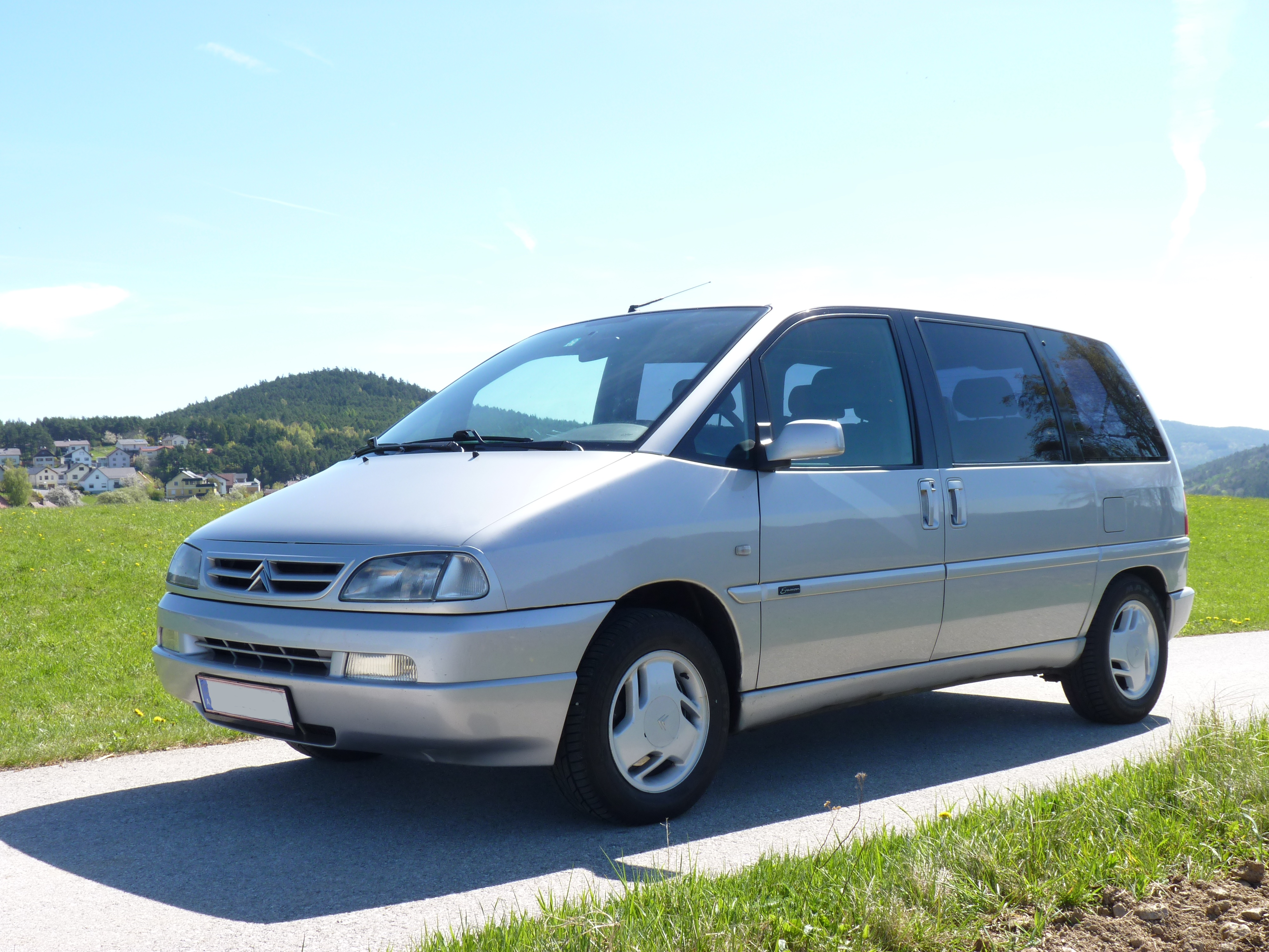 Eurovan: Citroen Evasion Facelift